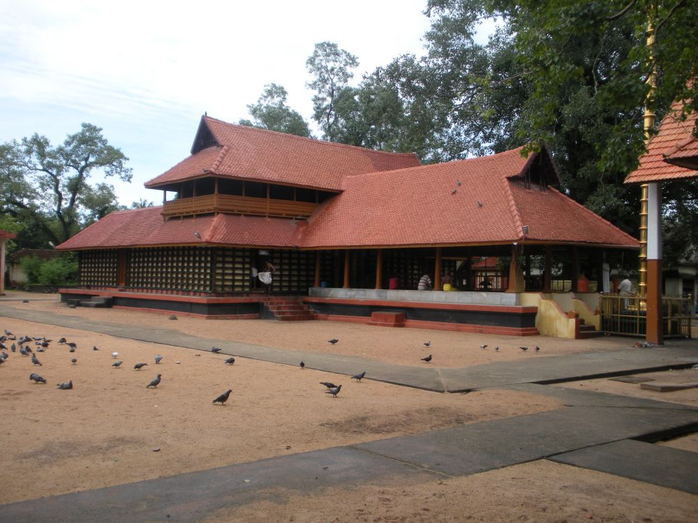 Rajarajeshwary Kshethram, Mullakkal, Alappuzha